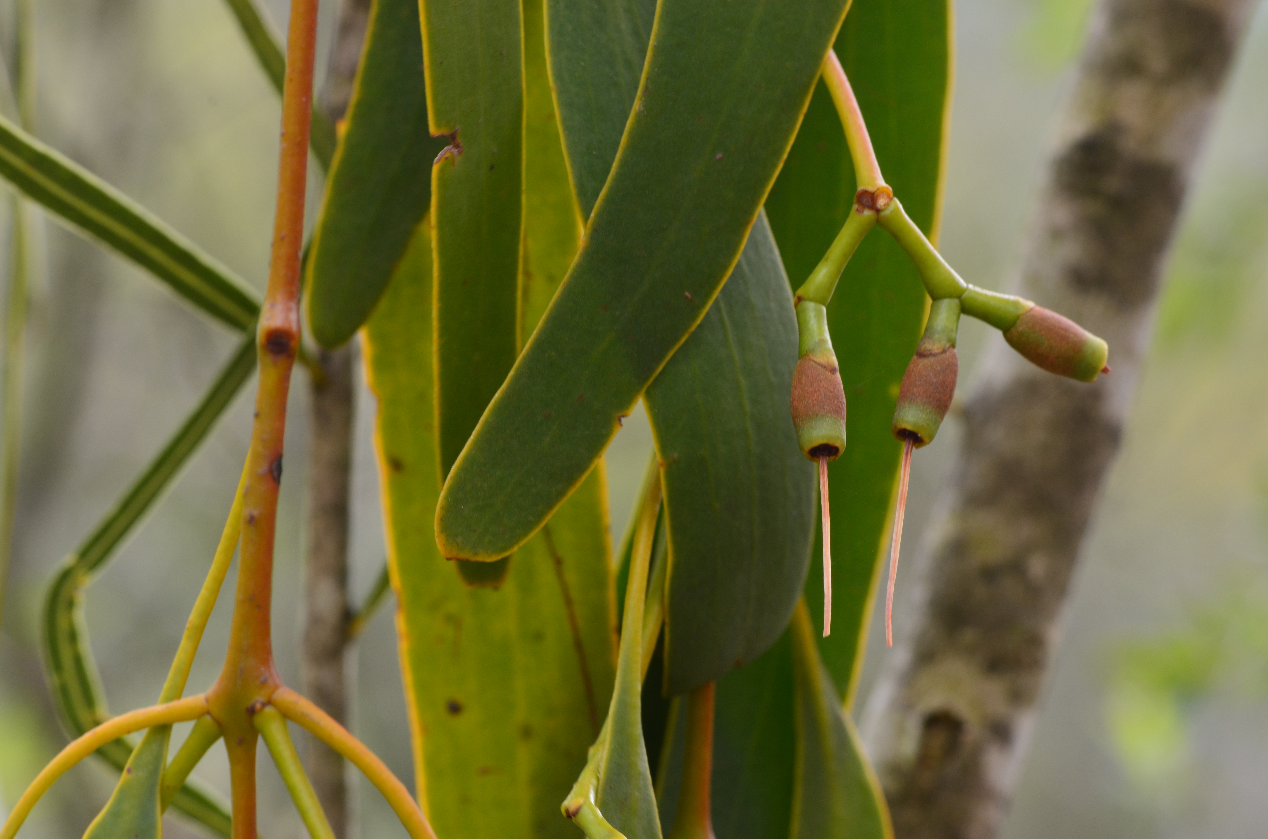 Amyema bifurcata , Burning Mountain, New South Wales